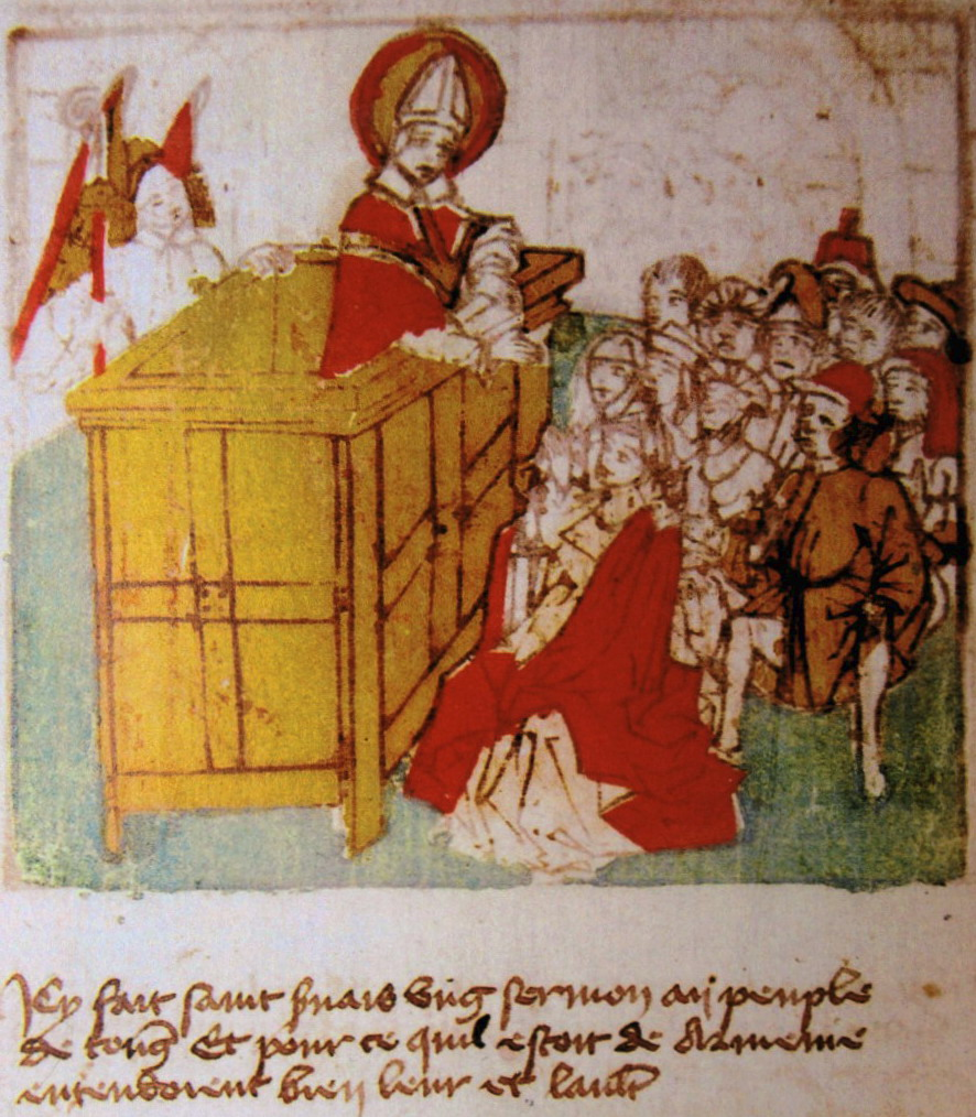 Scene from the life of Saint Servatius according to legend. Here: Servatius preaches to the people of Tongeren and although he speaks in Greek they understand him. Drawing with text in French in a manuscript of ±1460 of the so-called Blokboek van Sint Servaas (Brussels, Royal Library)